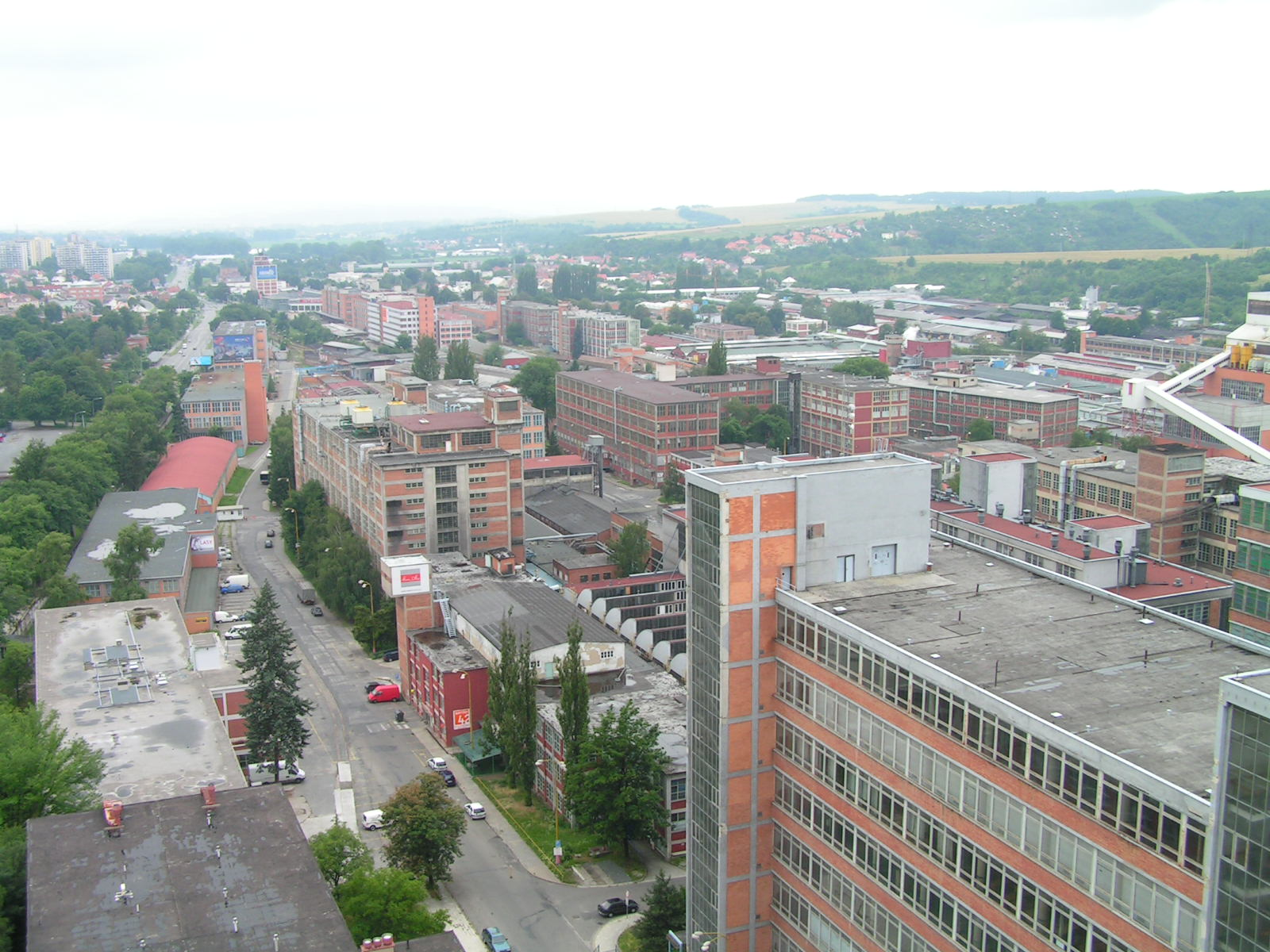 Zlín, area Svit.